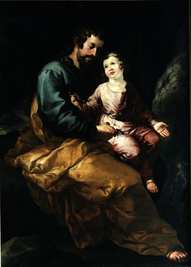 St Joseph and the Christ Child